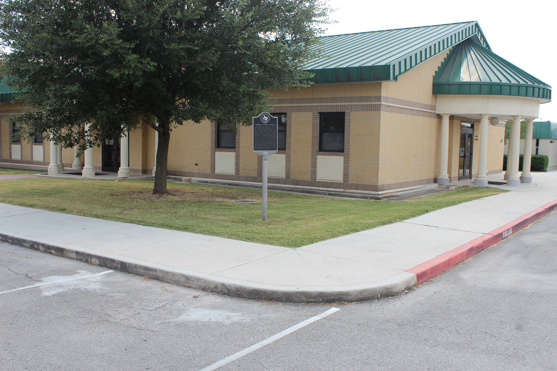 Marion Public Schools. The town of Marion, a German settlement, was founded in 1877 as a marketing and shipping point for the Galveston, Harrisburg, and San Antonio Railroad. T. W. Peirce donated $3,000 and land for free public schools in Marion. In 1878 the first schoolhouse was built. In 1917 a brick building facing Cunningham Street replaced the first school. In 1938 a third building was constructed by the Works Progress Administration. As student enrollment increased, the grades were split into three schools. The community continues the tradition of strong support of its district schools. (1996) #3215